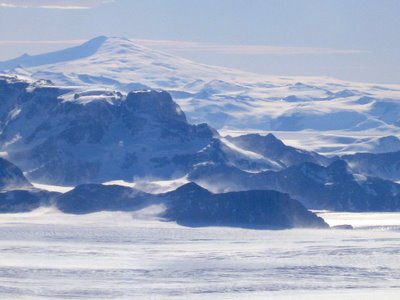 View from a plane of the front range of the Transantarctic Mountains